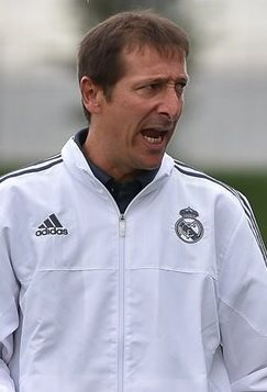 Luis Miguel Ramis as a coach of Real Madrid U19 during UEFA Youth League match against Shakhtar Donetsk on 15 September 2015